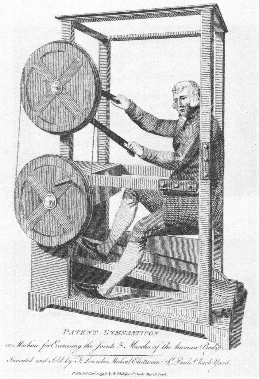 The gymnasticon, a late-18th-century exercise machine invented by Francis Lowndes